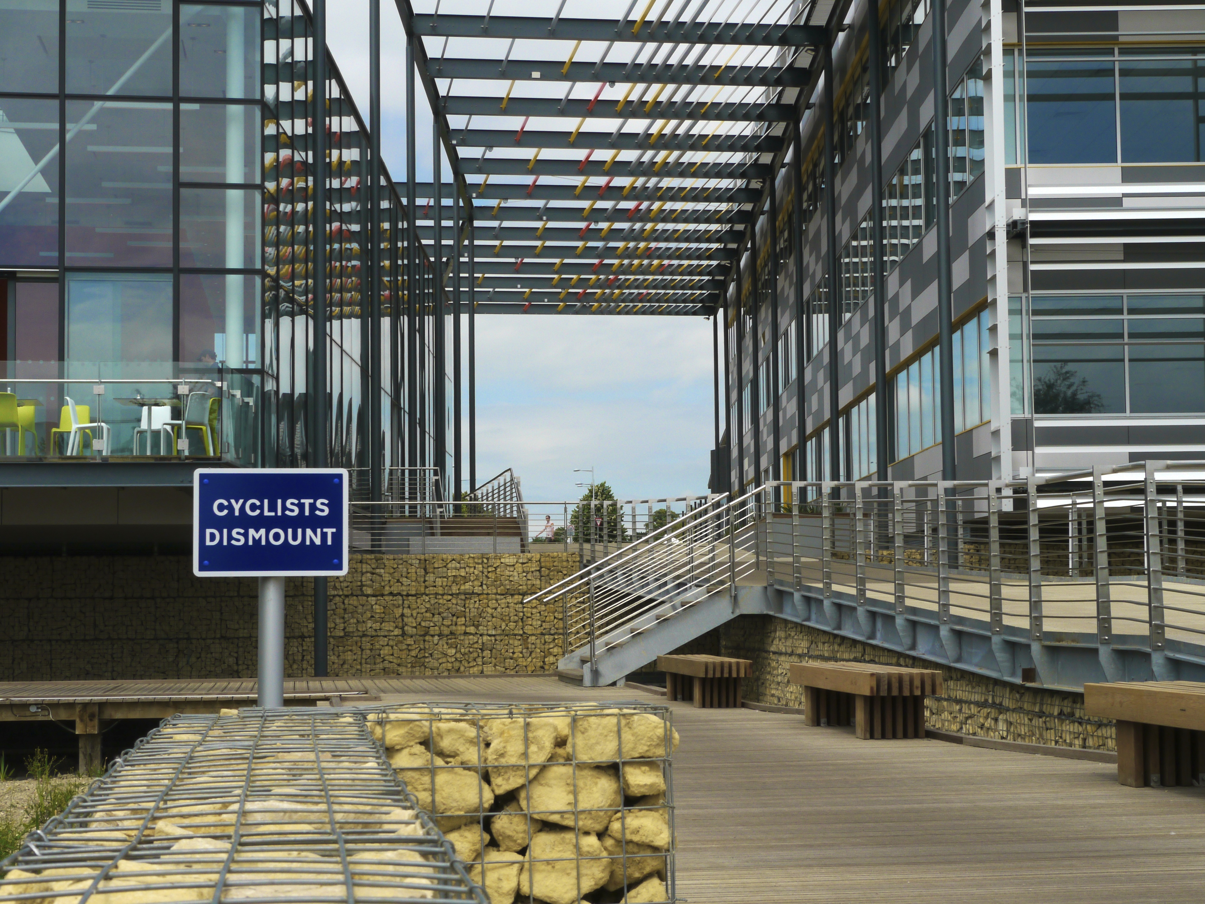 West Cambridge Business Center